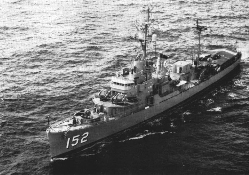 The U.S. Navy destroyer escort USS Peterson (DE-152), circa 1964. She was the last active Edsall-class ship and decommissioned in June 1965.